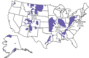 Map showing US coal production by region, 2007